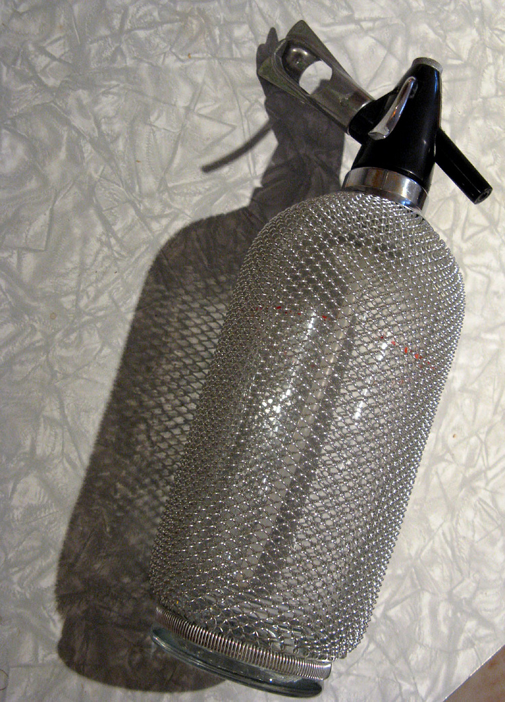 This is a soda syphon (also called a seltzer bottle) made in Czechoslovakia in the 50s.